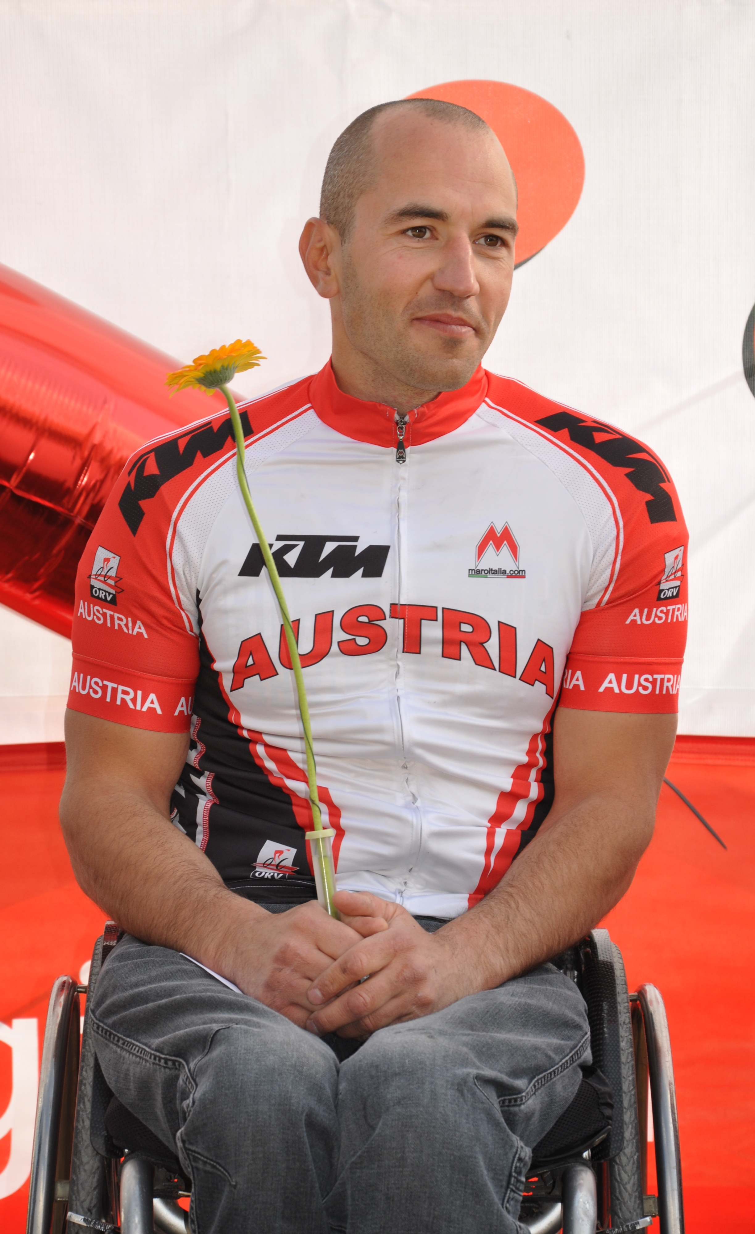 Thomas Frühwirth, Austrian para-cyclist